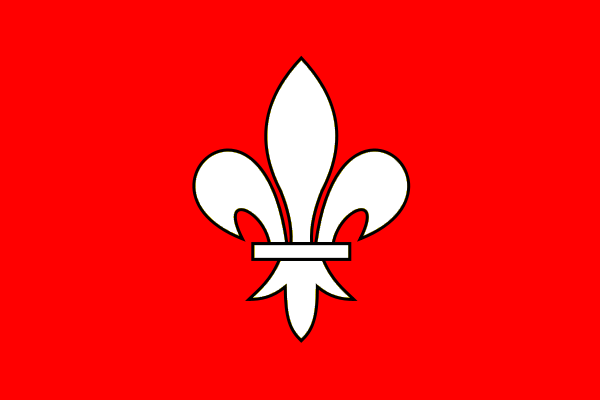 Flag of Houffalize